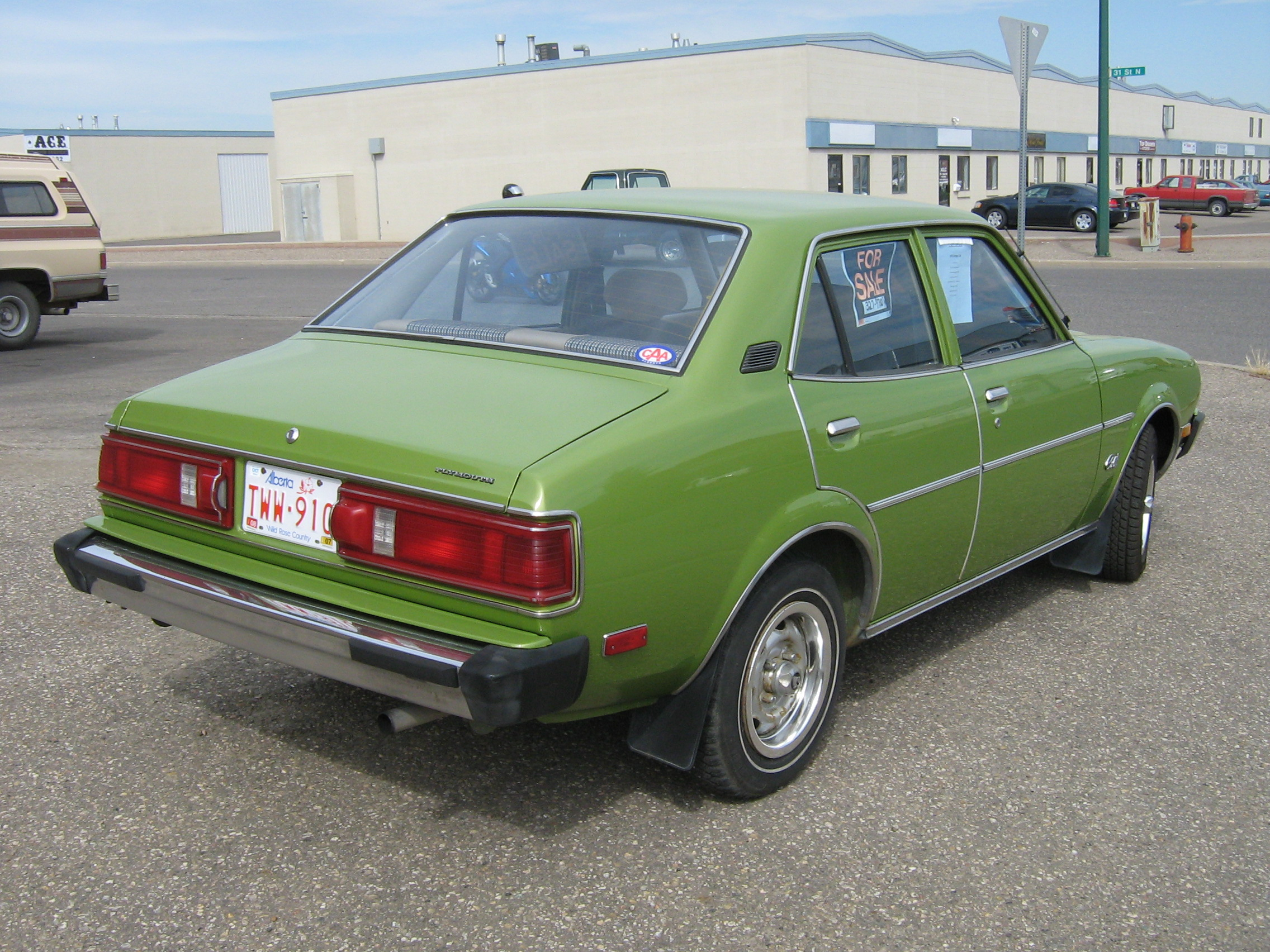 1978 Plymouth Colt - version of the Mitsubishi Lancer / Dodge Colt. This one was for sale. The sign said it was a one owner with only 82k kms - certainly looked mint.